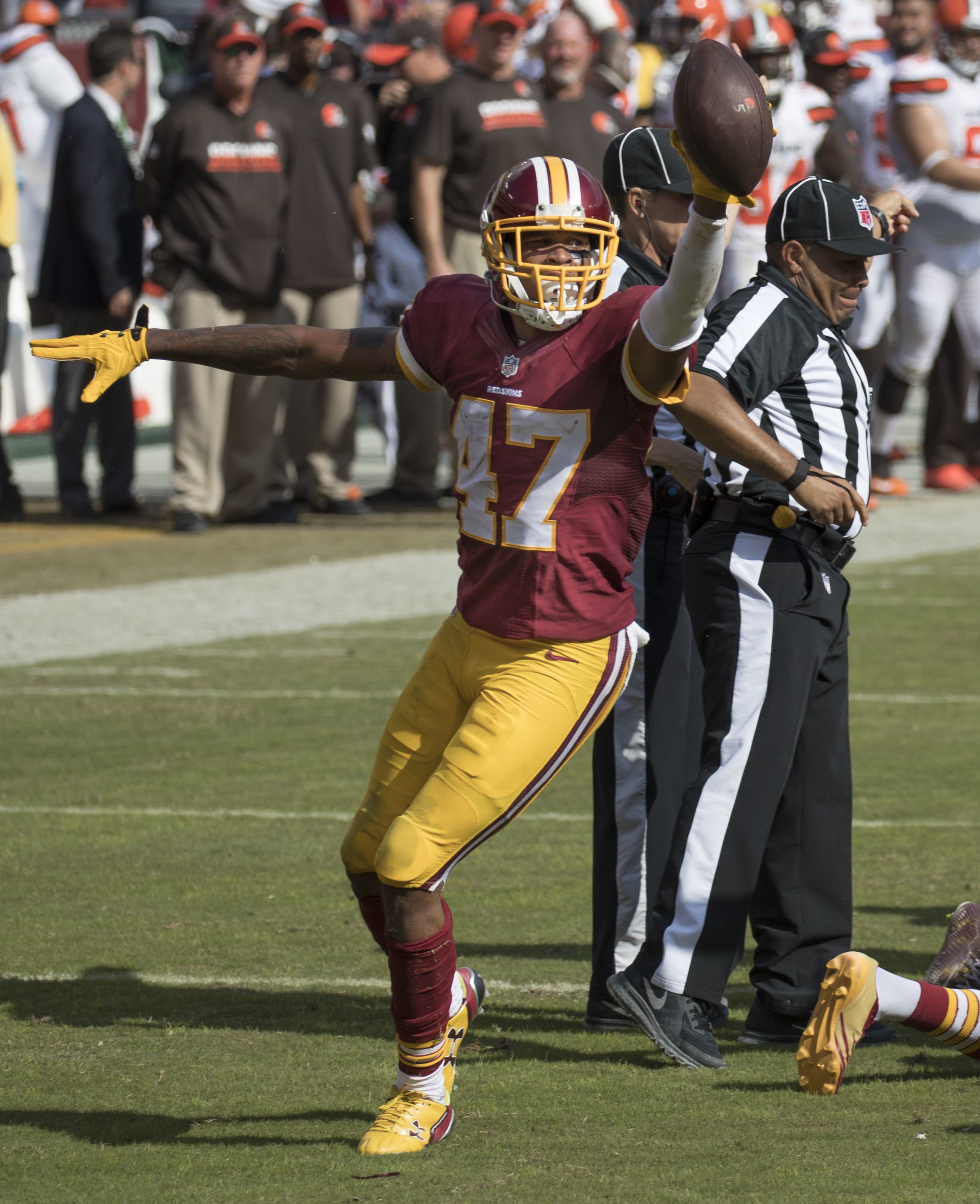 Browns at Redskins 10/2/16